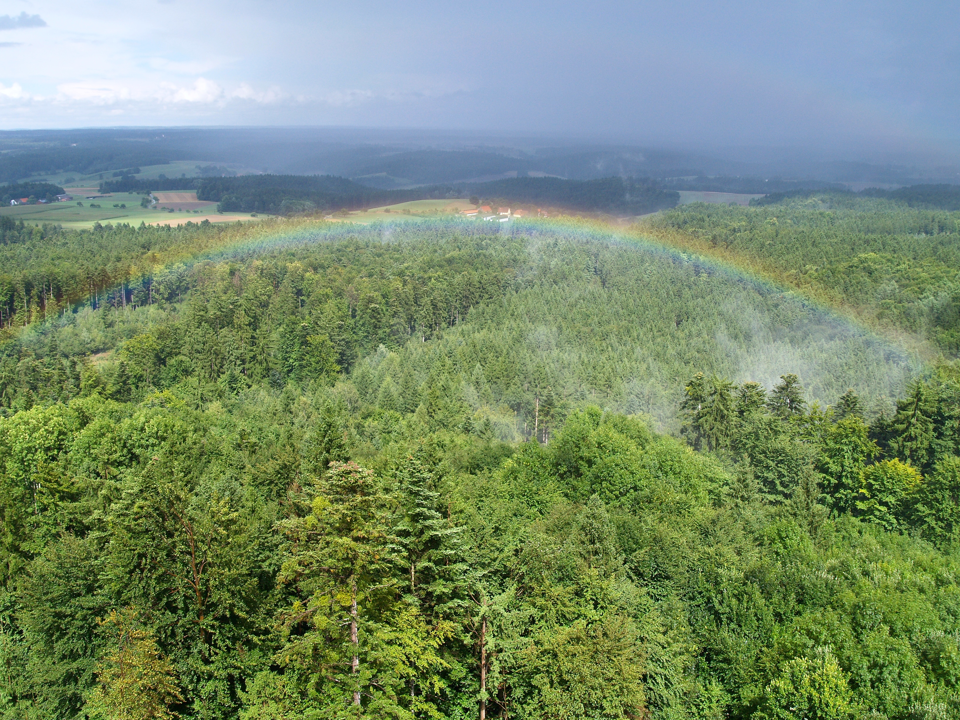 Rainbow below the horizon from a lookout tower